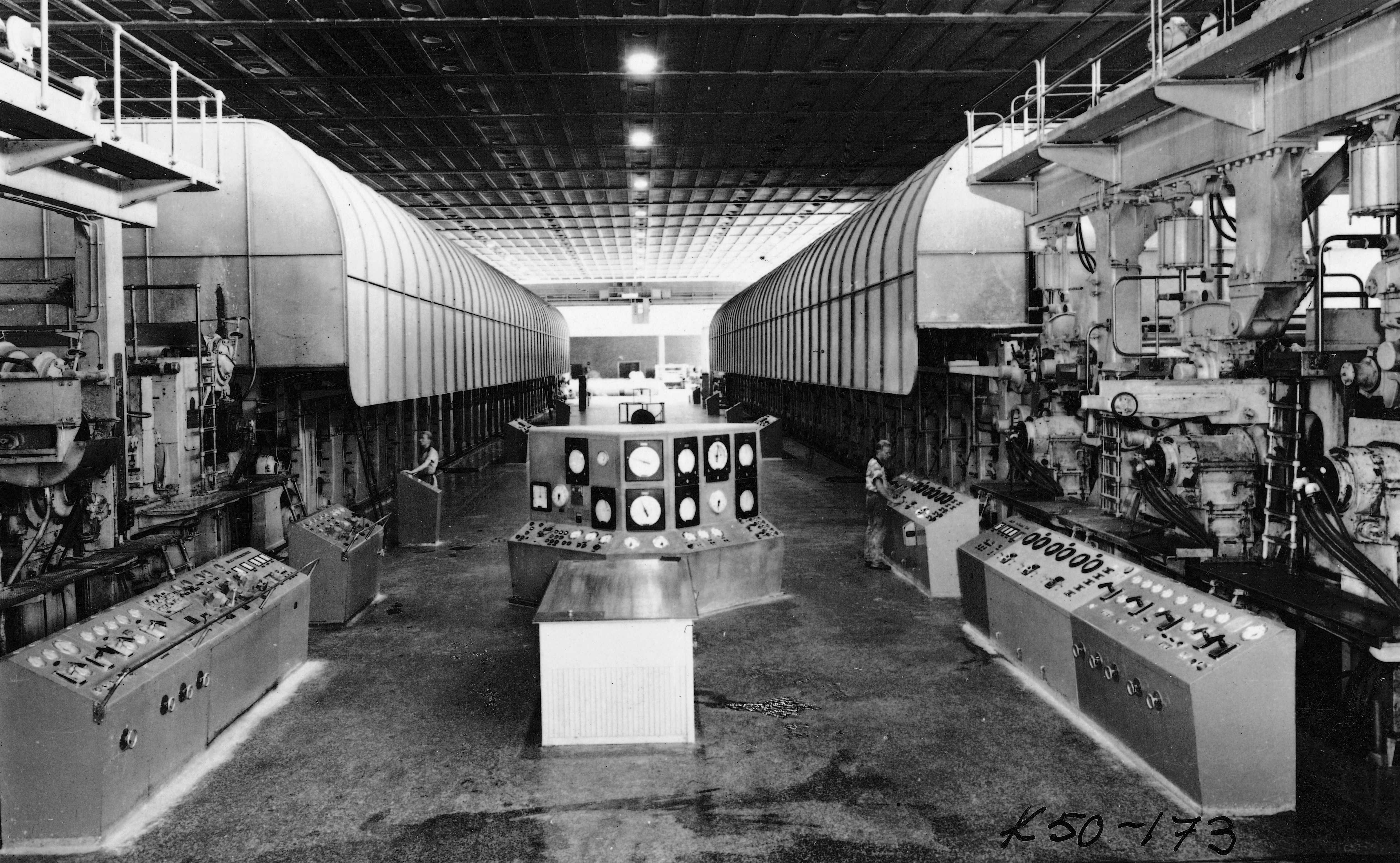 Papermachines PK1 (Bagley & Sewall) and PK2 (Walmsley) in Kaipola paper mill in Jämsä, Finland in 1956